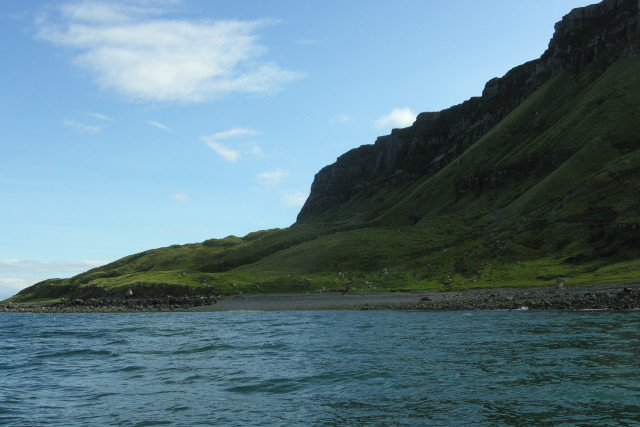 Gravel beach, North-east Isle of Eigg A rare beach in this area of Eigg, useful for coming ashore. Beware the skerry, Bogha Ruadh, which lies 150 metres offshore. It is covered at High Water